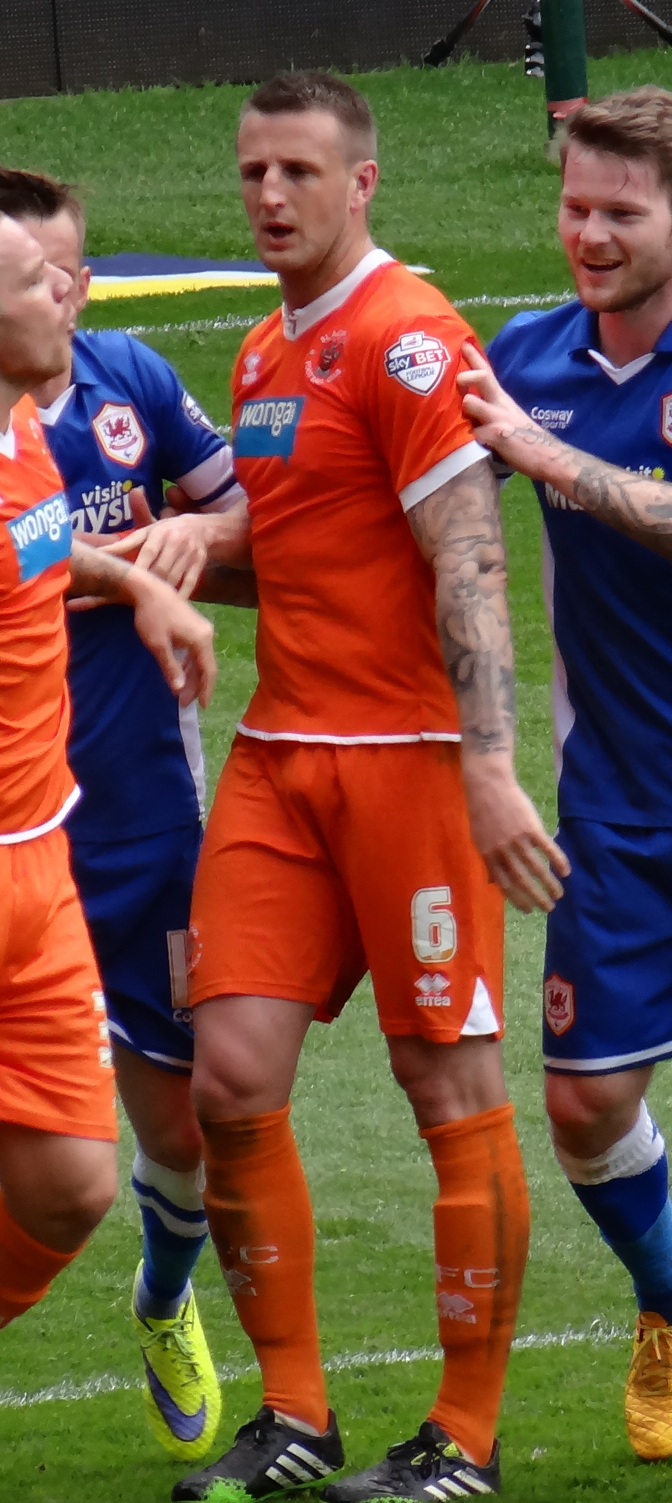 Footballer Peter Clarke in 2015.